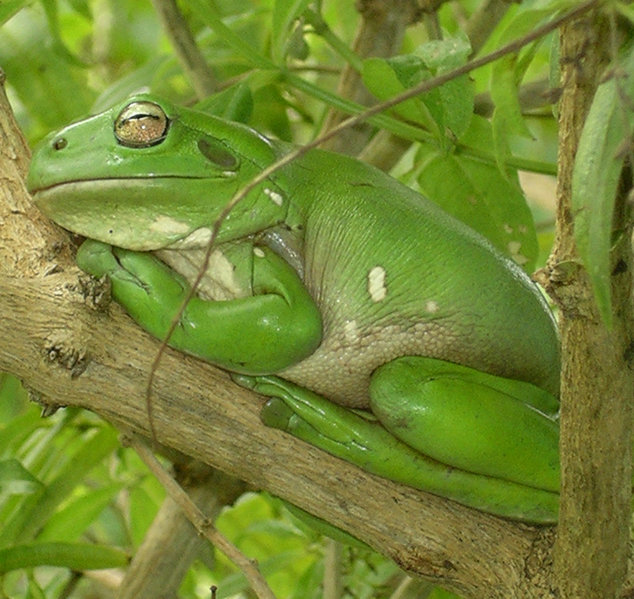 Litoria caerulea